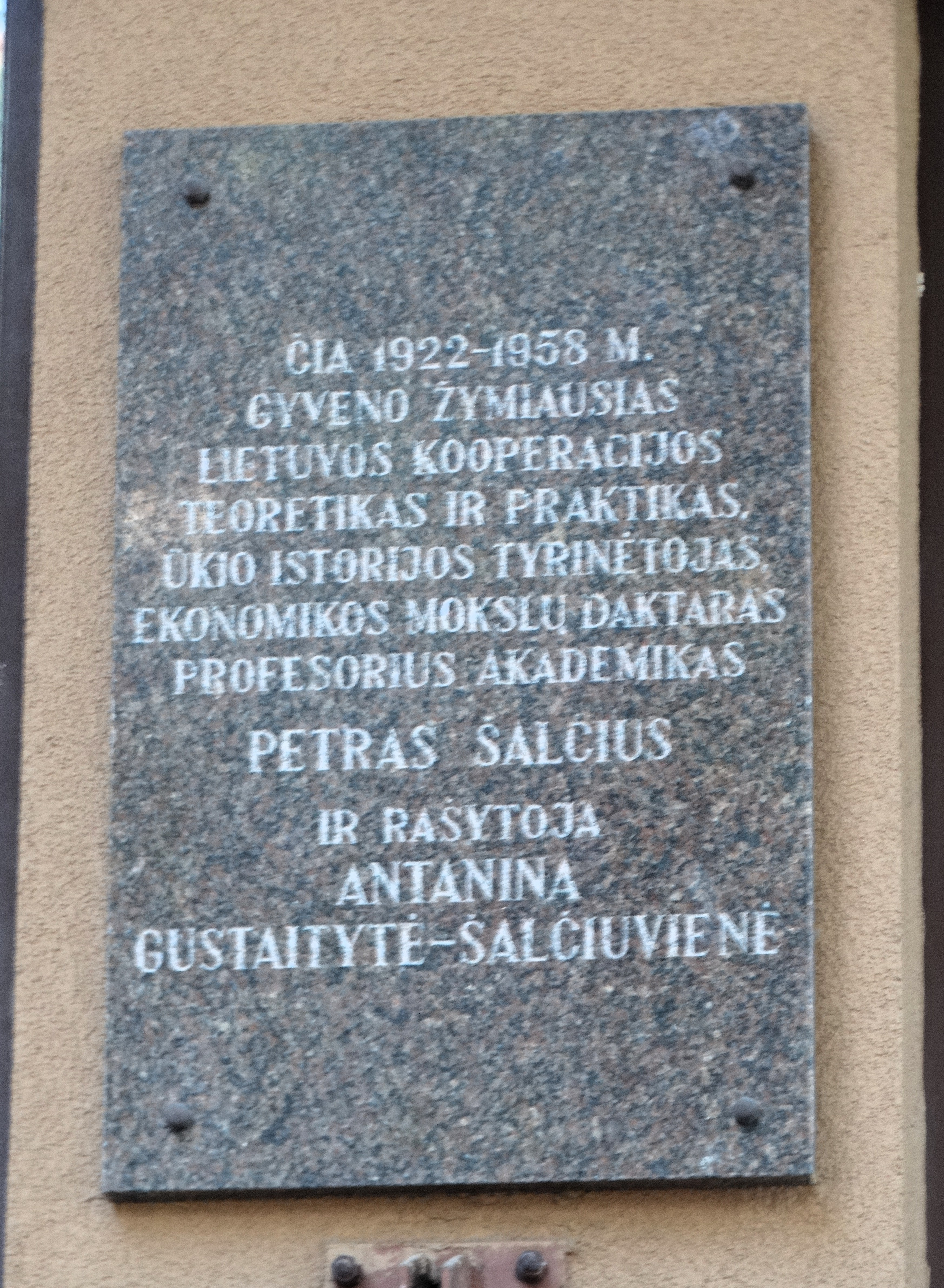 Memorial plaque to Petras Šalčius, V. Putvinskio g. 12, Kaunas, Lithuania